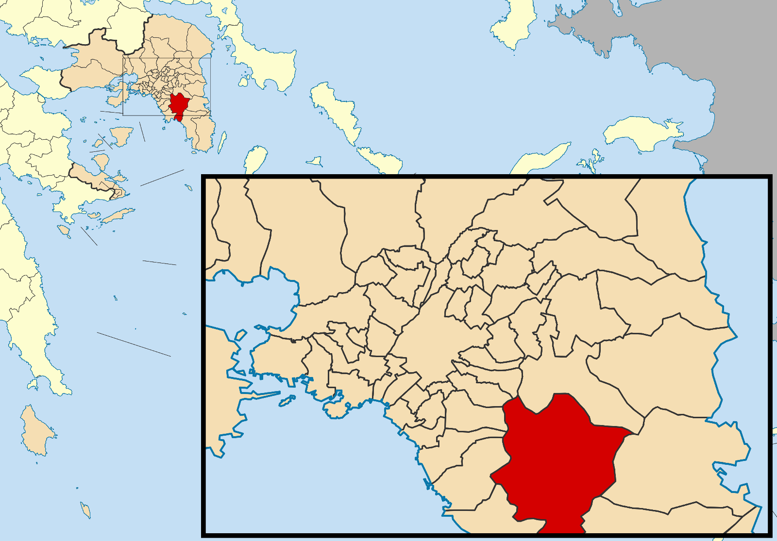 Locator map for Koropi municipality in Greek region Attica (2011)